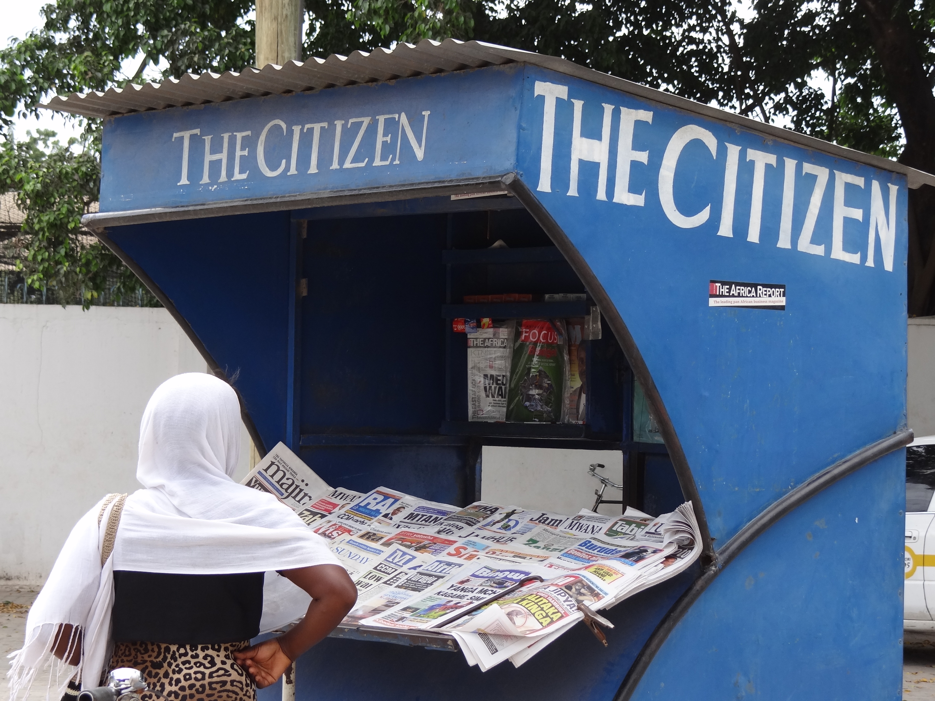 Woman at The Citizen Newsstand - Oyster Bay District - Dar es Salaam - Tanzania